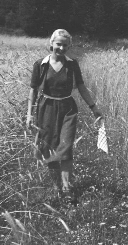 Jarmila Jeřábková visiting family friends JUDr Ladislav Vavruch and Mářa Vavruchová